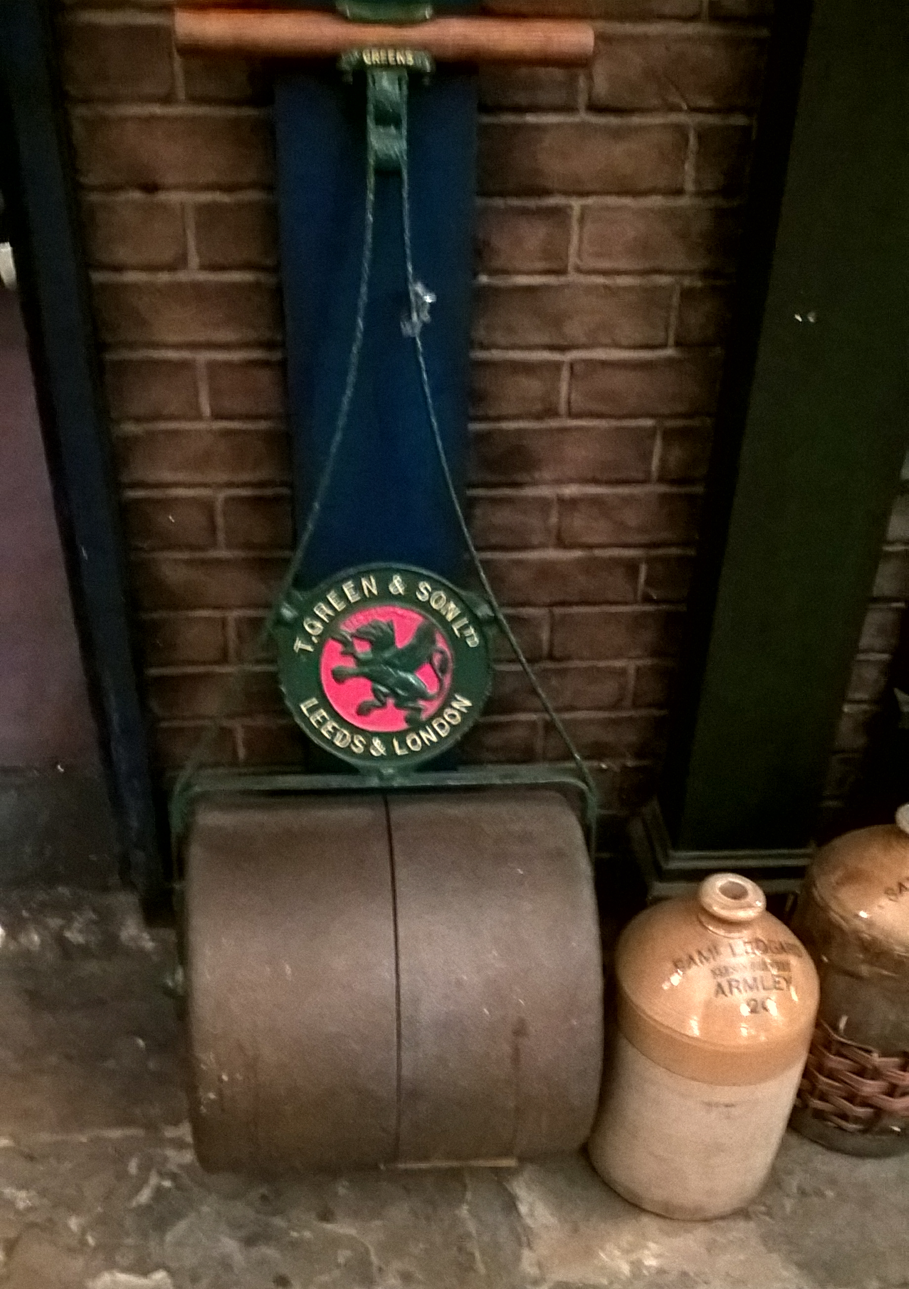 Thomas Green & Sons lawn roller at the Abbey House Museum, Leeds.